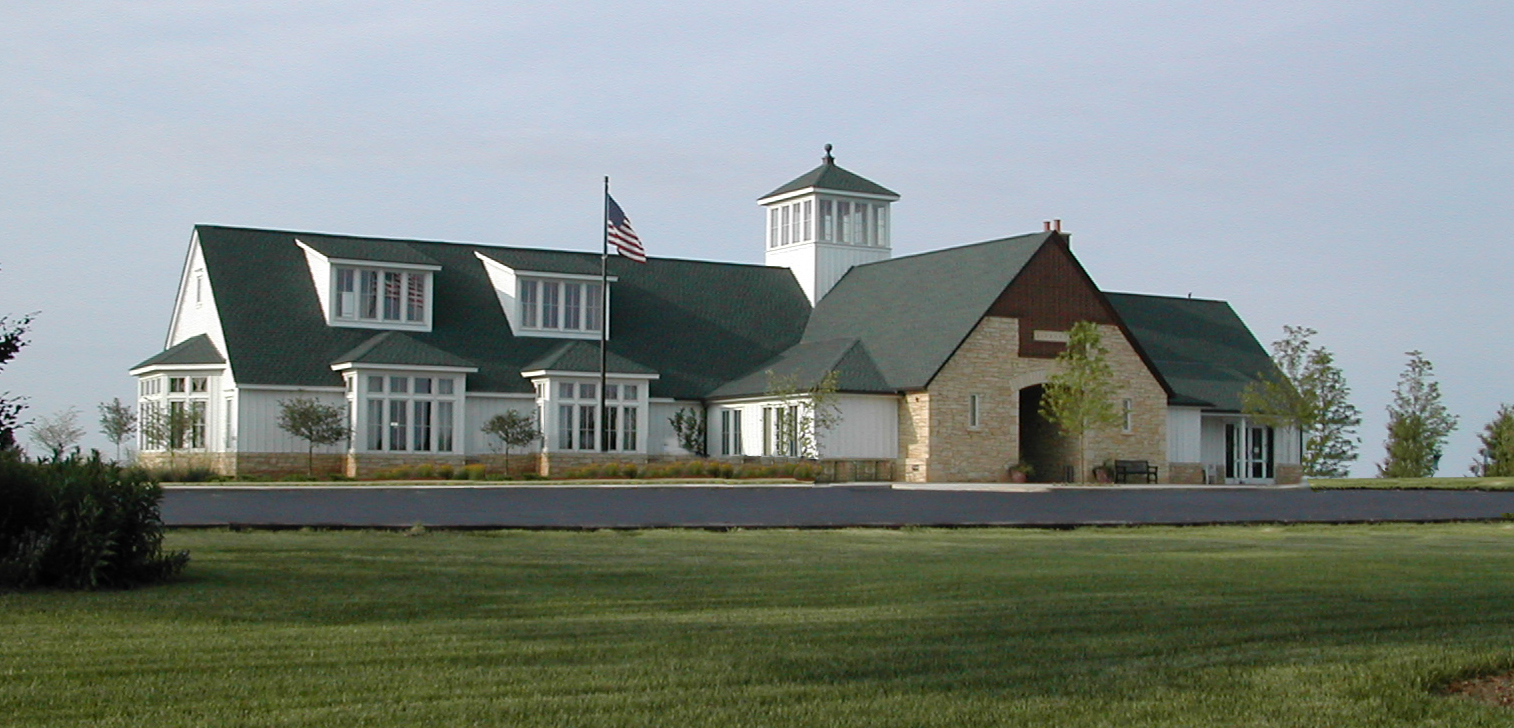 Photo of the Huntley Area Public Library located in Huntley, IL. The Library serves over 50,000 residents including all of Huntley, parts of Lake in the Hills and Algonquin, and portions of Grafton, Rutland and Coral Townships.